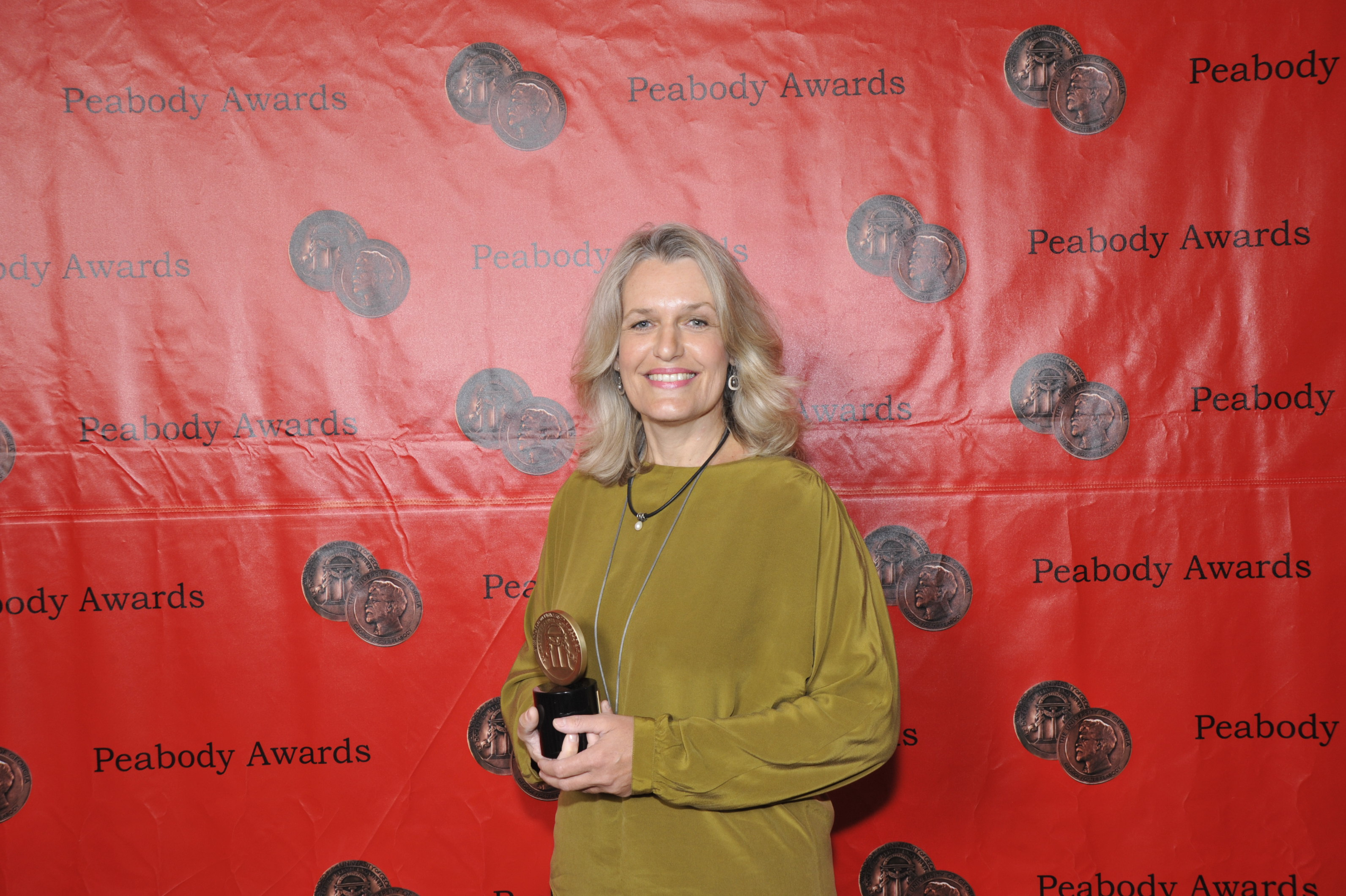 PHOTO CREDIT: ANDERS KRUSBERG / PEABODY AWARDS Lise Lense-Moller 70th Annual Peabody Awards Luncheon Waldorf=Astoria Hotel May 23, 2011